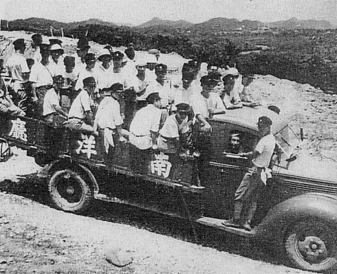 Nan'yo-cho(Administrative Headquarters of the South Pacific Mandate) truck